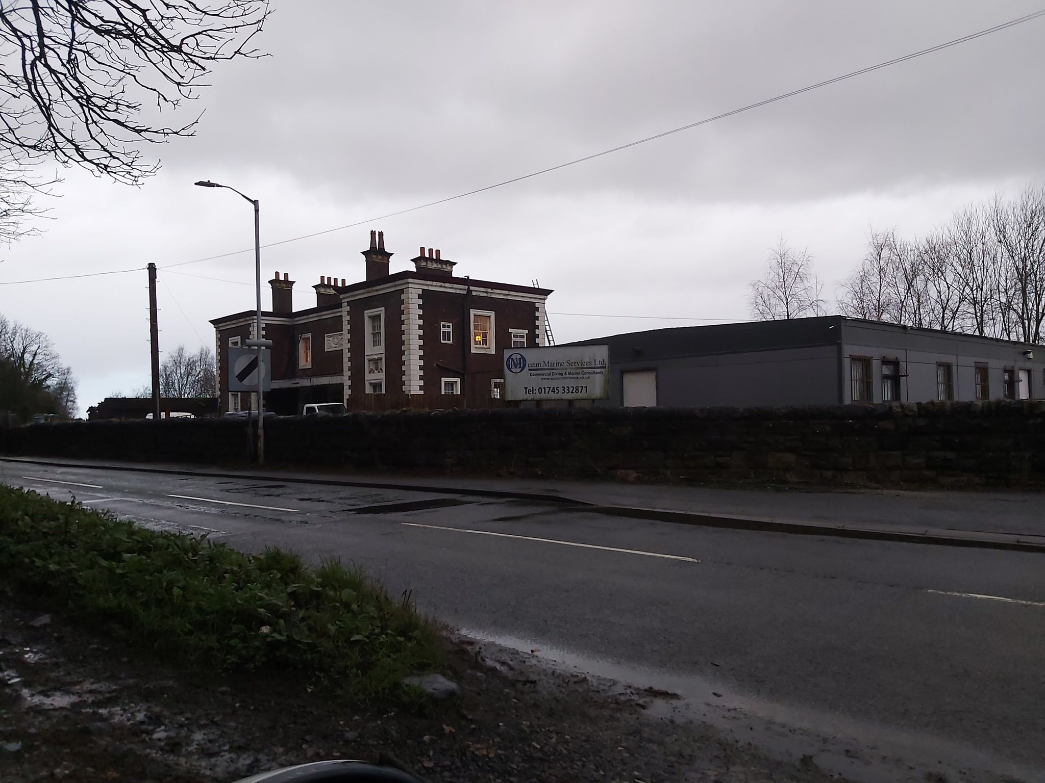 The station building of the former Mostyn railway station.